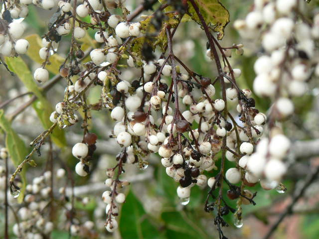 Gulabere plant on Sima de las cotorras, Chiapas, México.